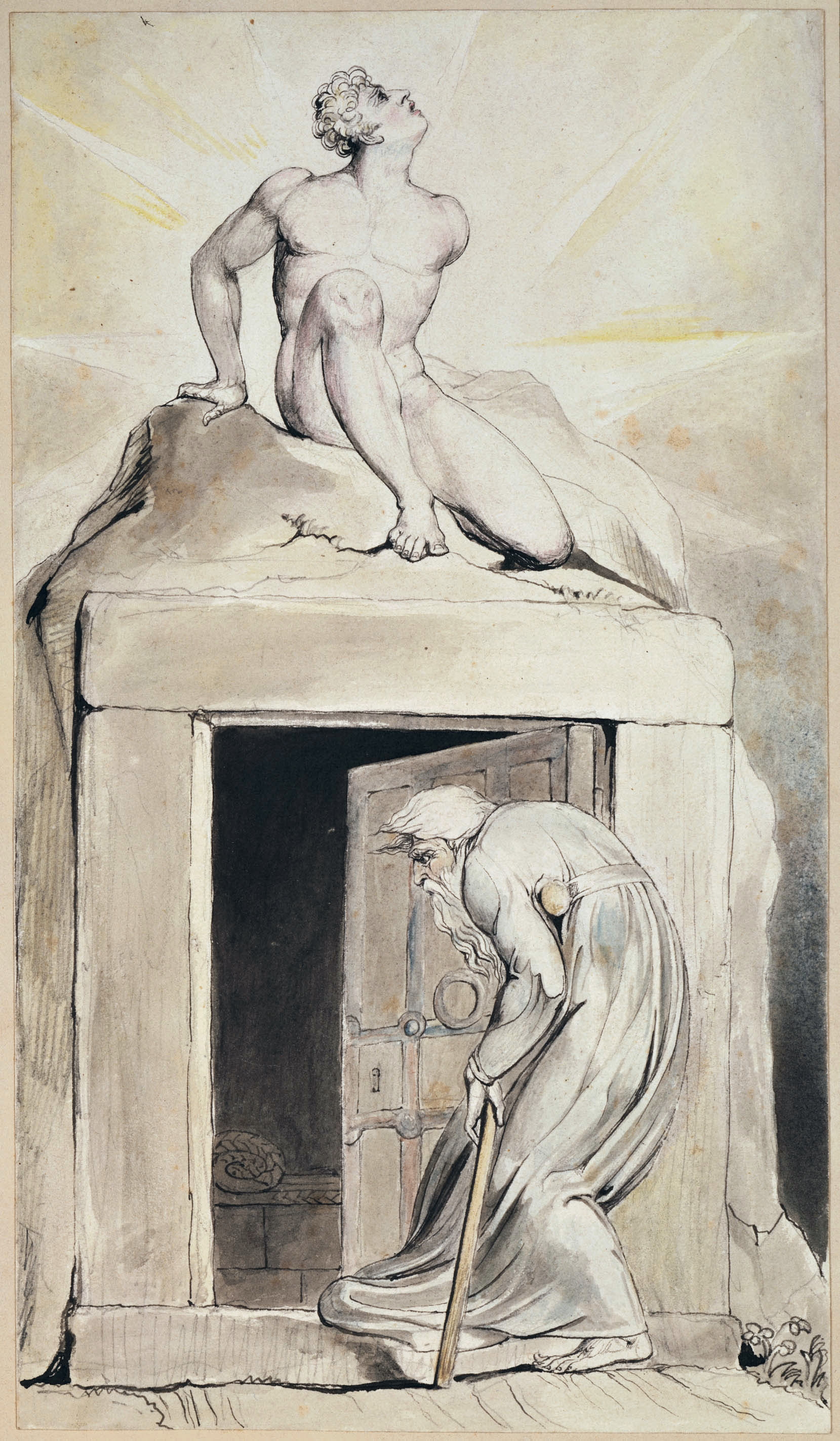 Illustrations to Robert Blair's The Grave , object 16 Death's Door